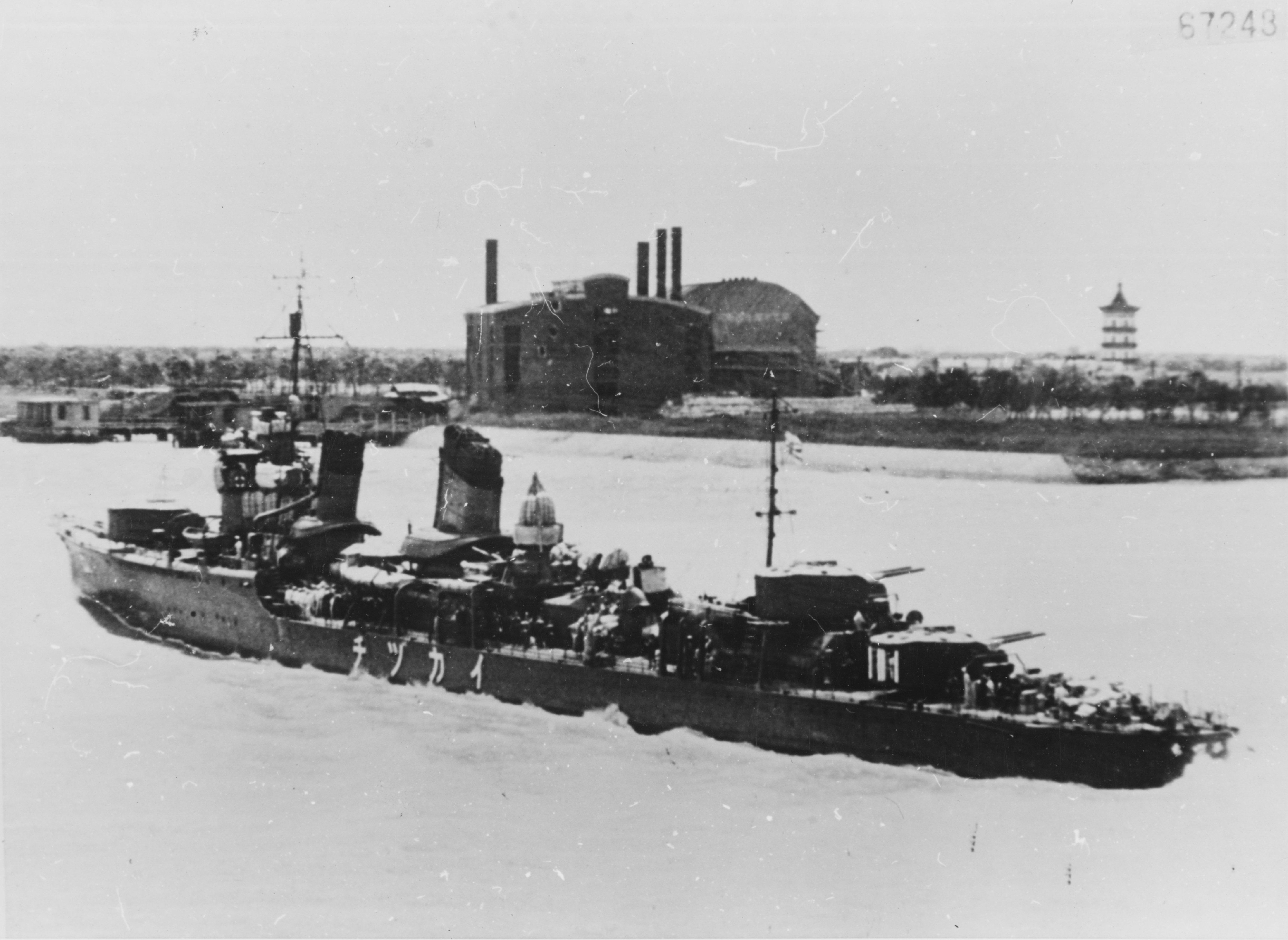 Ikazuchi (Japanese Destroyer, 1932) underway in Chinese waters, circa 1938. The original photograph was received from the Office of Naval Intelligence. U.S. Naval Historical Center Photograph. Removed caption read: Photo # NH 74173 Japanese destroyer Ikazuchi in Chinese waters, circa 1938 Online Image: 65KB; 740 x 560 pixels